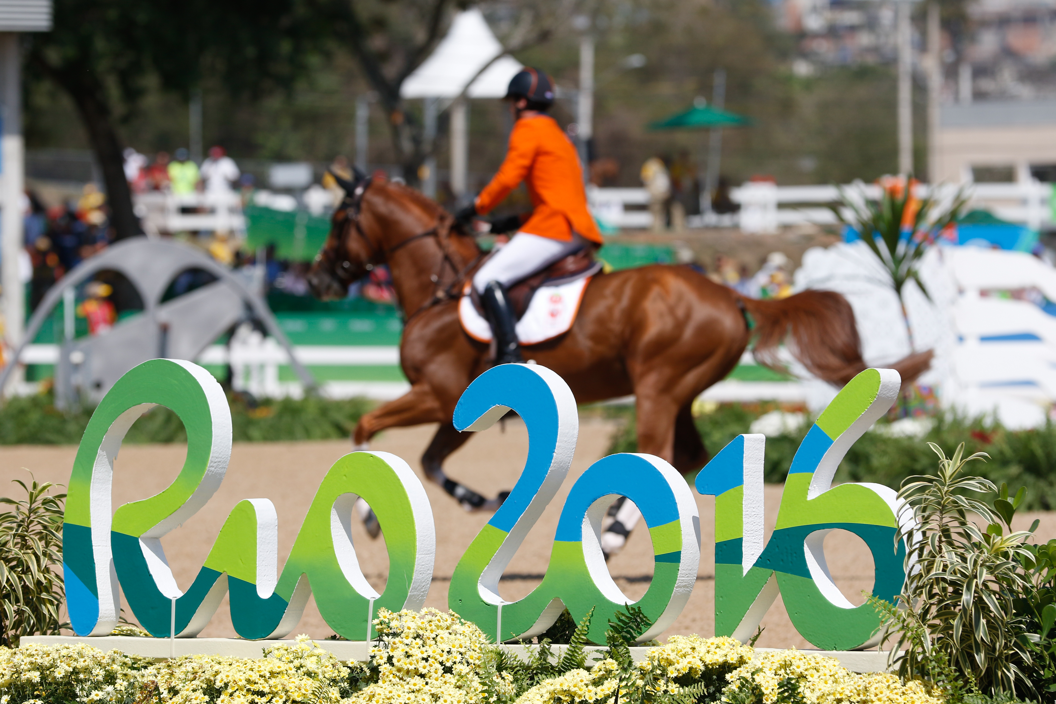 Rio de Janeiro - Competição de saltos do hipismo por equipes nos Jogos Olímpicos Rio 2016, em Deodoro. ( Fernando Frazão/Agência Brasil)